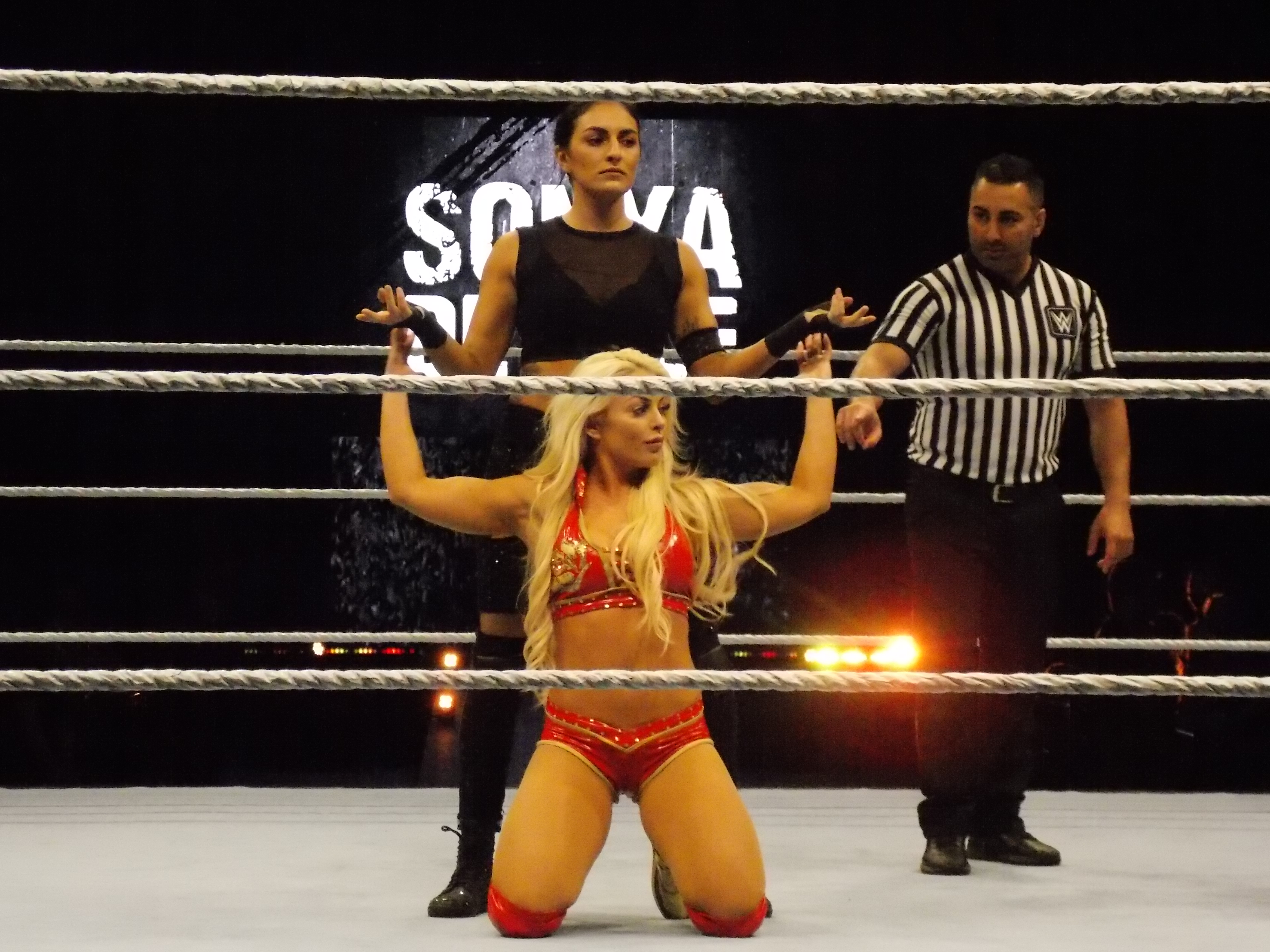 Sonya Deville & Mandy Rose at a WWE Live Event House Show in Omaha, Nebraska, USA on Sunday, August 18, 2019